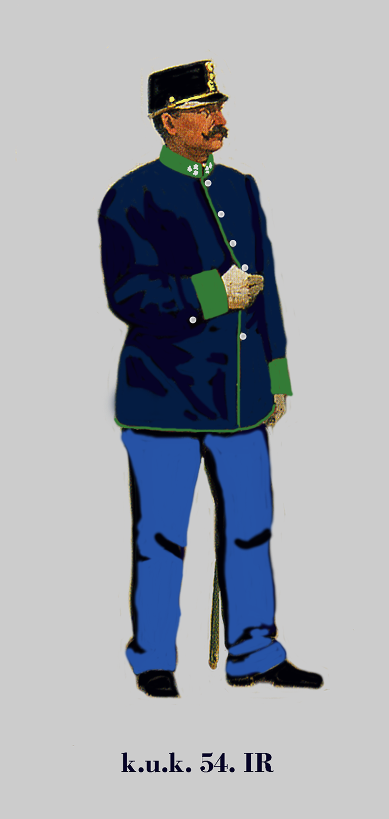 Captain of the Austria-Hungarian (k.u.k.). 54th german Infantry Regiment in Service dress 1914